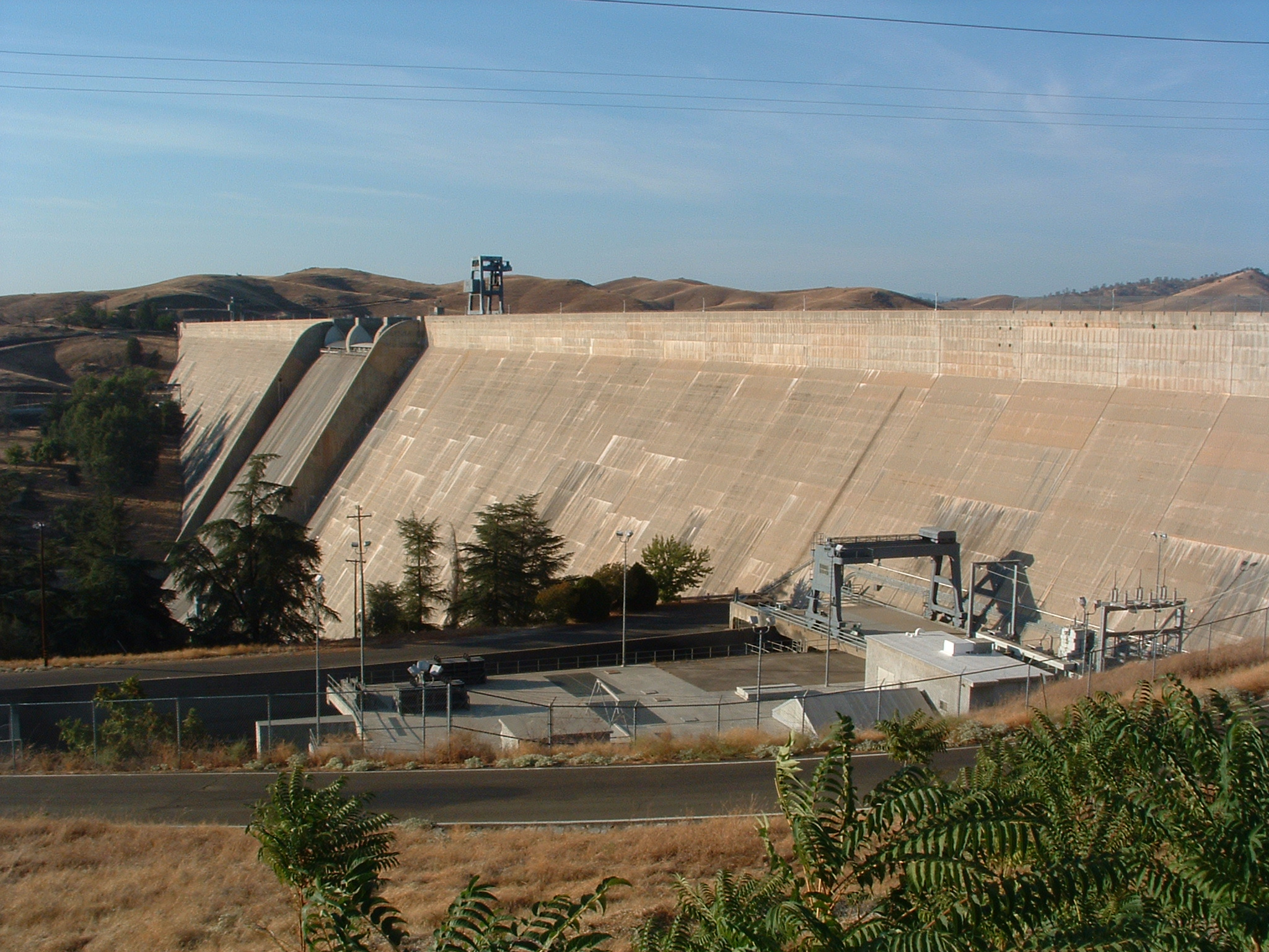 Friant Dam in Friant, CA. Date: 9/10/2003 Copyright: The photograph is released under GFDL and cc-by-sa-2.5